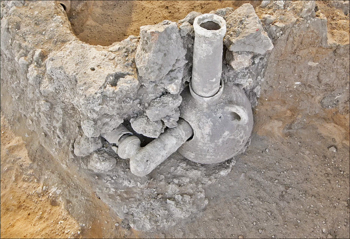 Ancient water collector terracotta in Jerusalem.